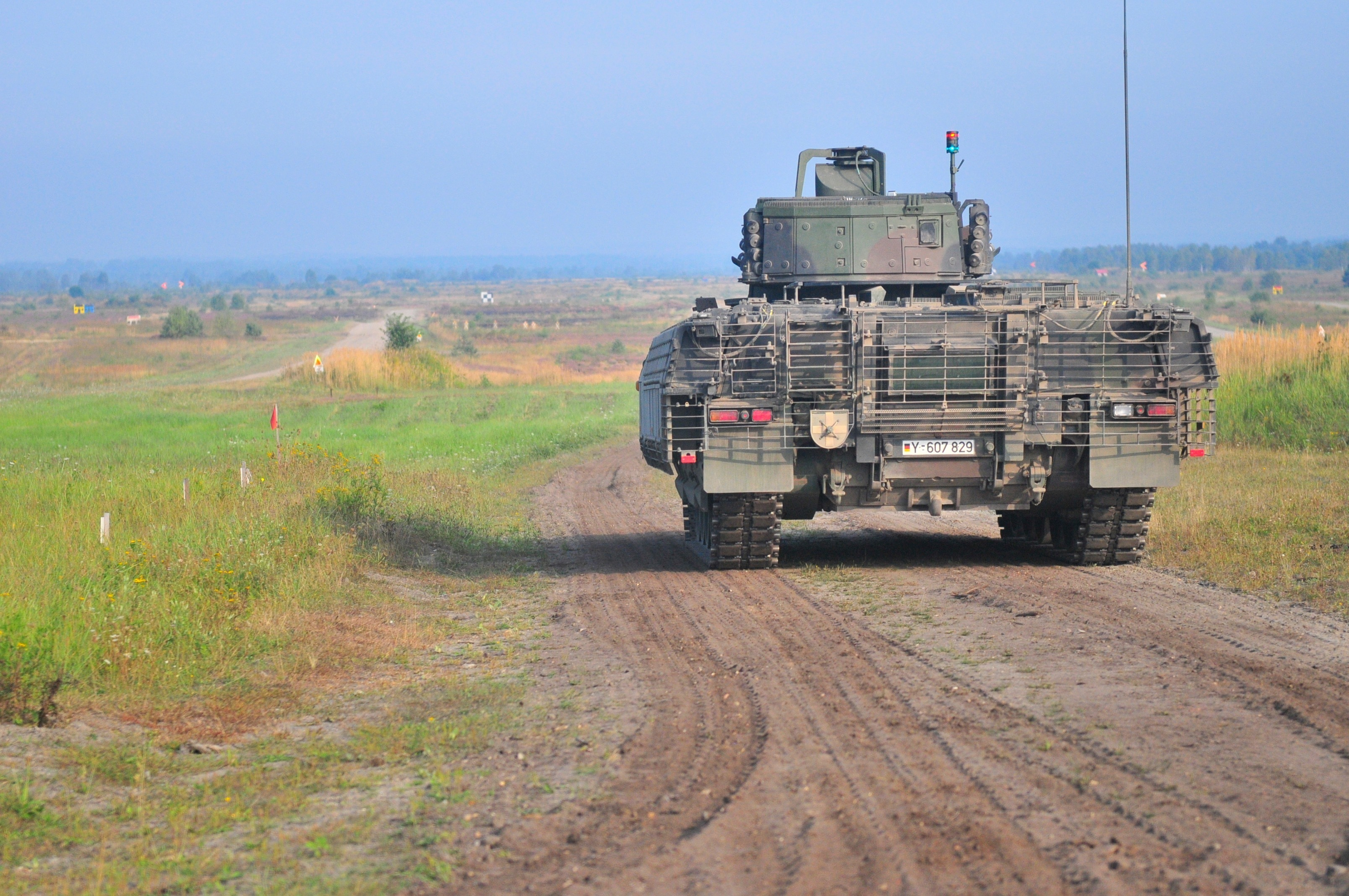 Positioning the Puma tank on a Live-Fire Range in Bergen, Germany Sept. 31.